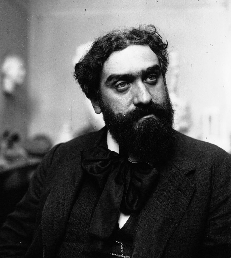 Portrait of the French sculptor Charles-Henri Pourquet (1877–1943) . It was published on the occasion of the dedication of the monument to Jules Renard, sculpted by Pourquet